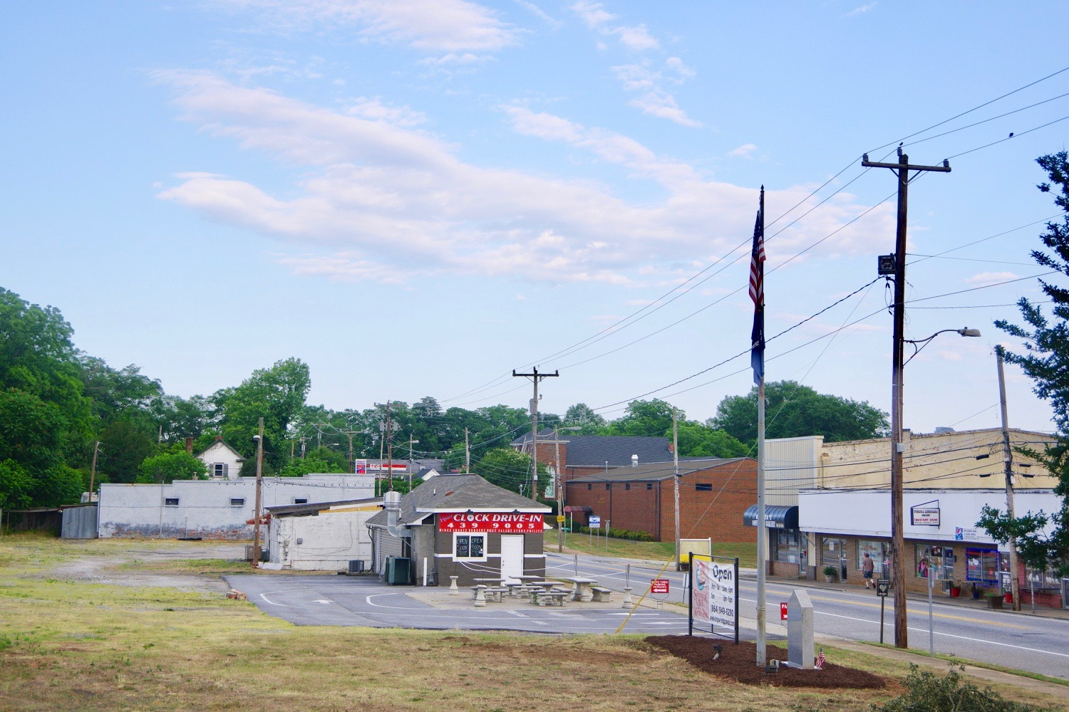 Businesses along Main Street (South Carolina Highway 290) in Duncan, South Carolina, United States.